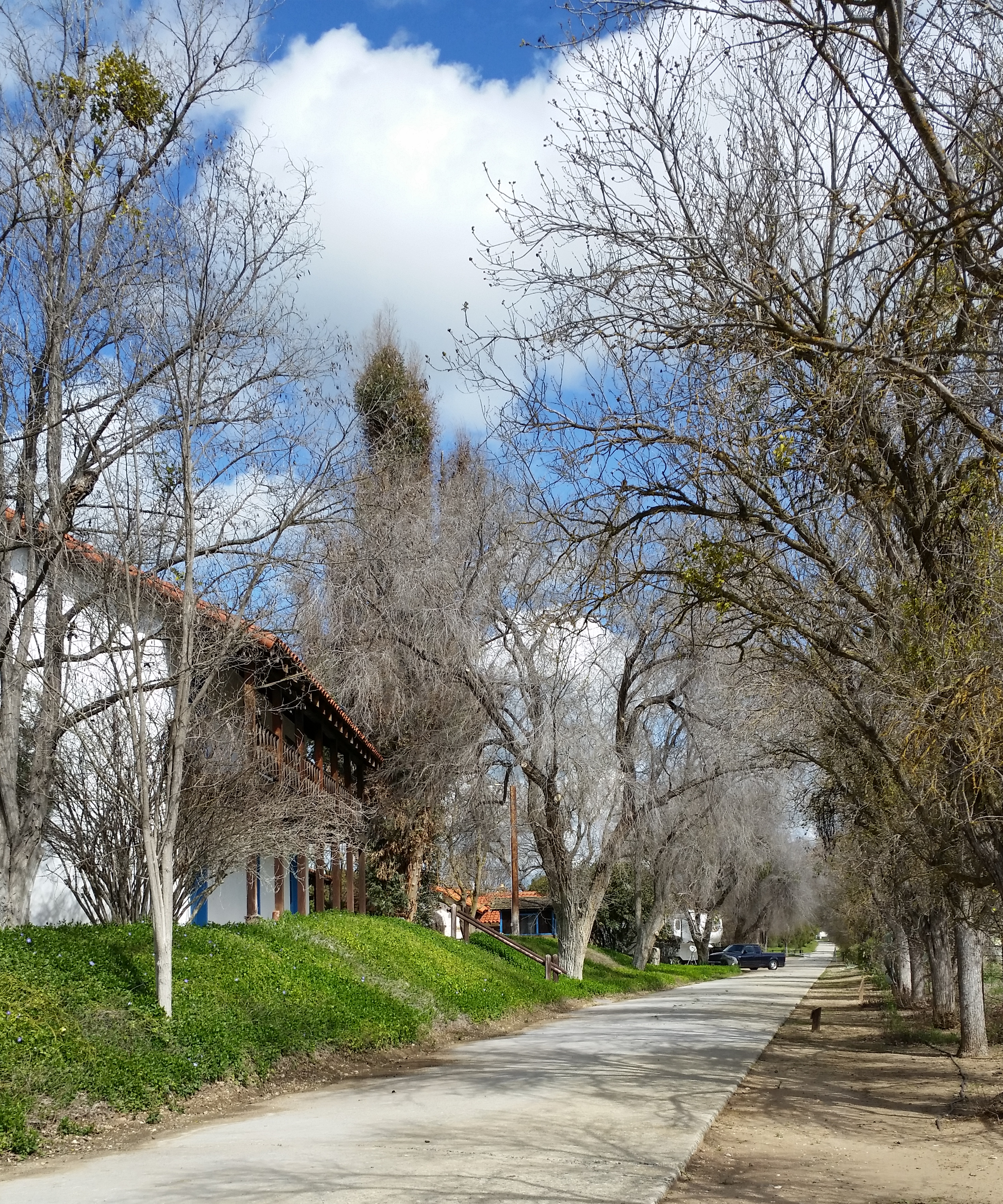 Former alignment of US highway 101 south of Mission San Miguel, California. This former stage road was paved in 1915, and later designated US highway 101 until bypassed in 1938.